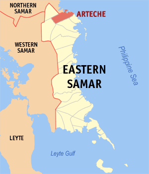 Map of Eastern Samar showing the location of Arteche